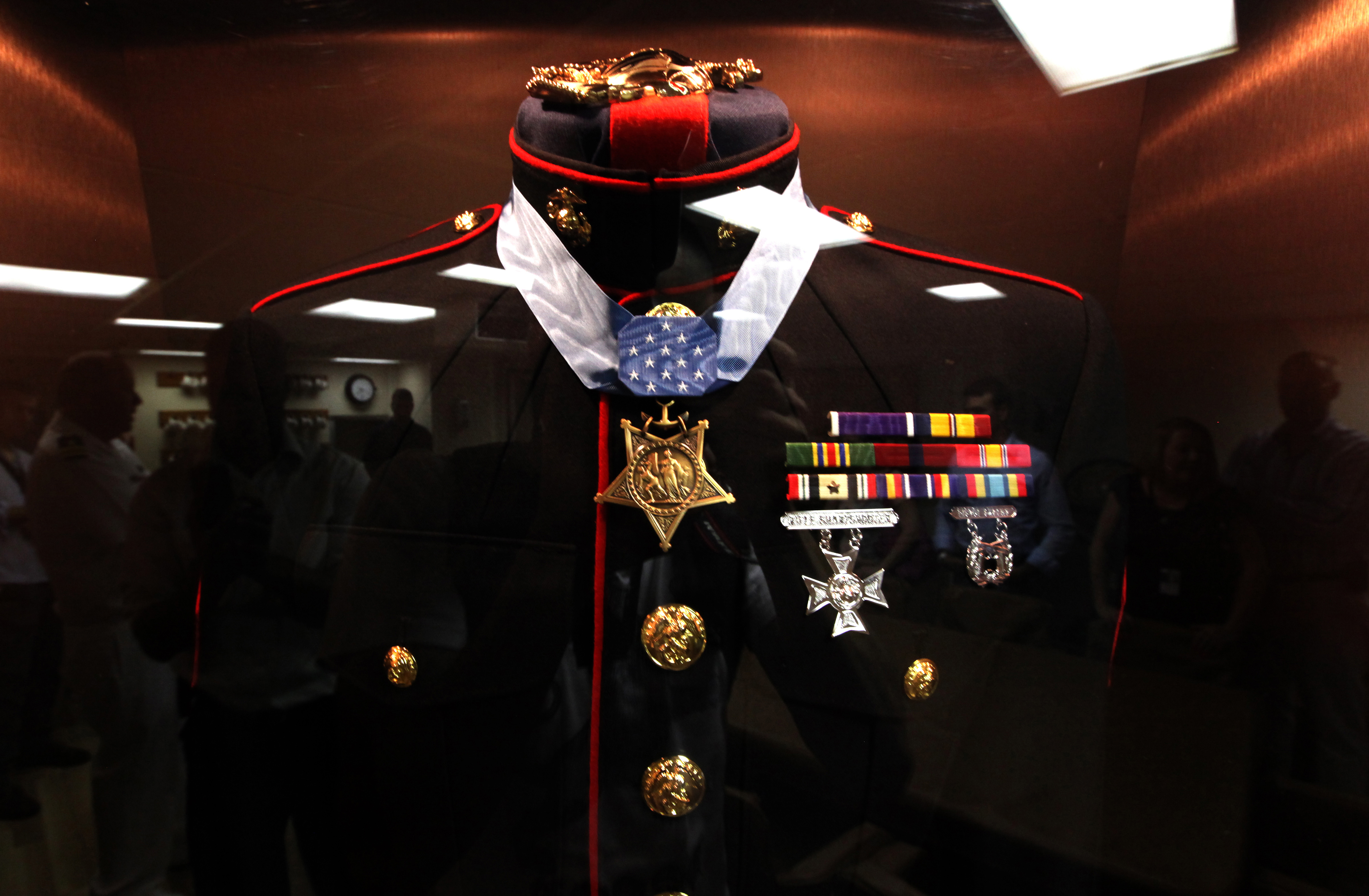 The dress blue uniform of Medal of Honor recipient, Cpl. Jason Dunham, is displayed on the quarterdeck of the USS Jason Dunham (DDG 109). The Navy's newest guided-missile destroyer was commissioned at Port Everglades, Fort Lauderdale, November 13, 2010.